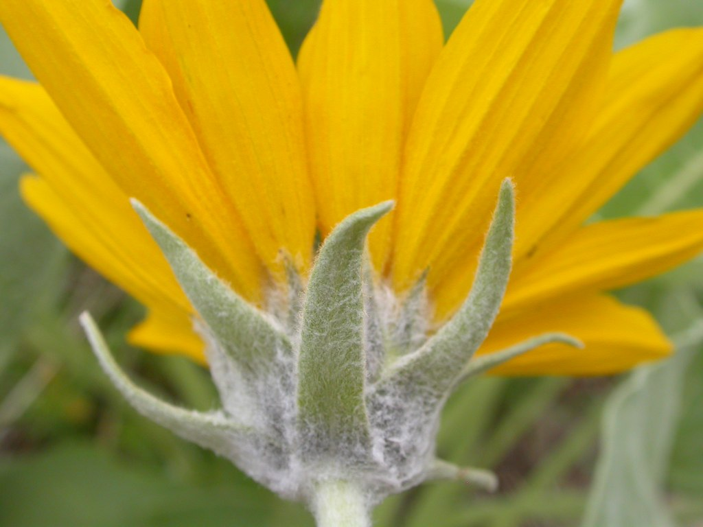 Balsamorhiza sagittata — Arrowleaf balsamroot. In Montana.